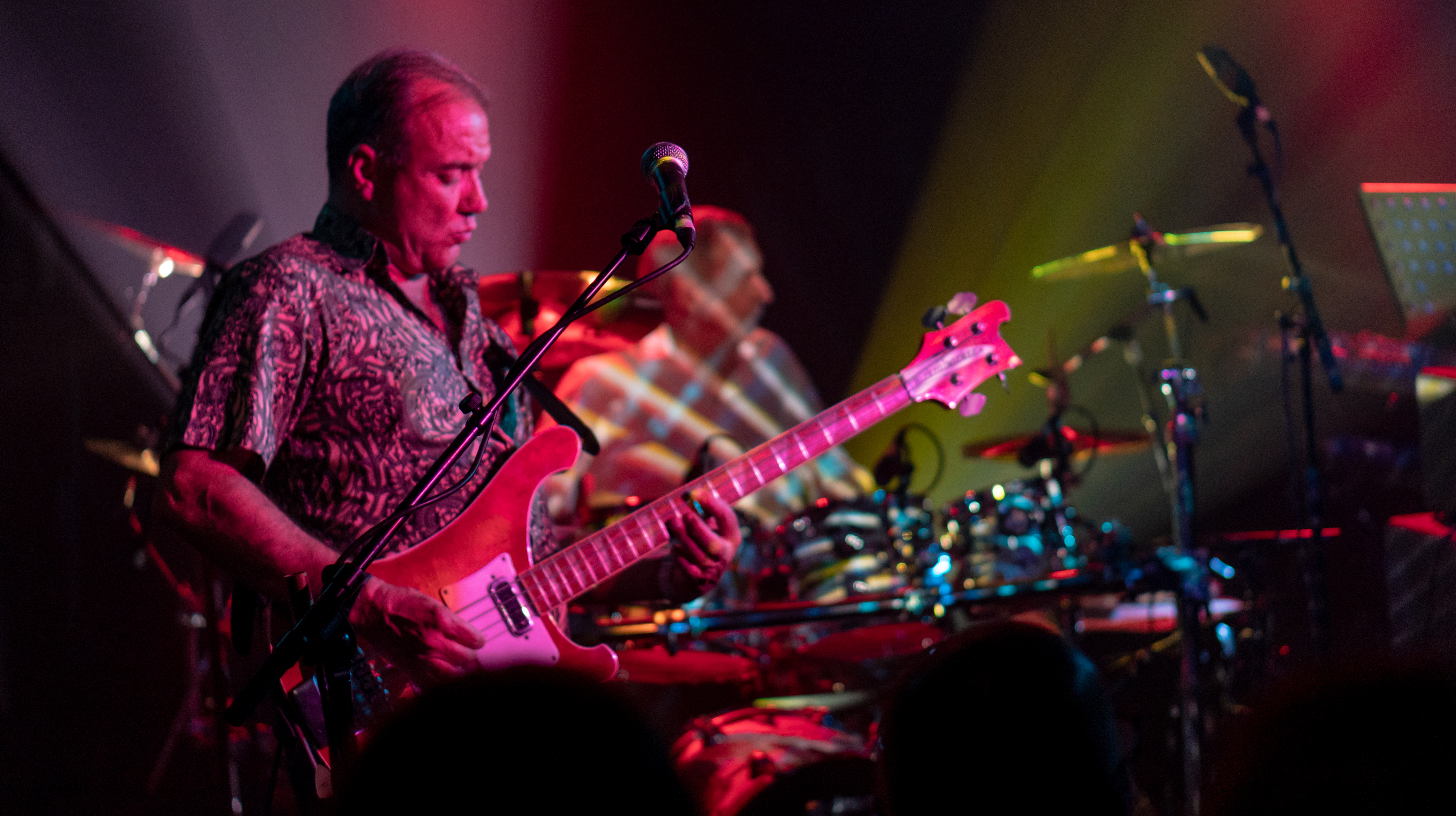 NickMasonDWalls200518-7